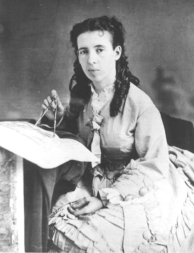 Portrait of Alice Dixon Le Plongeon, 19th C. photographer & amateur Mayanist/archaeologist; taken by her husband, Augustus